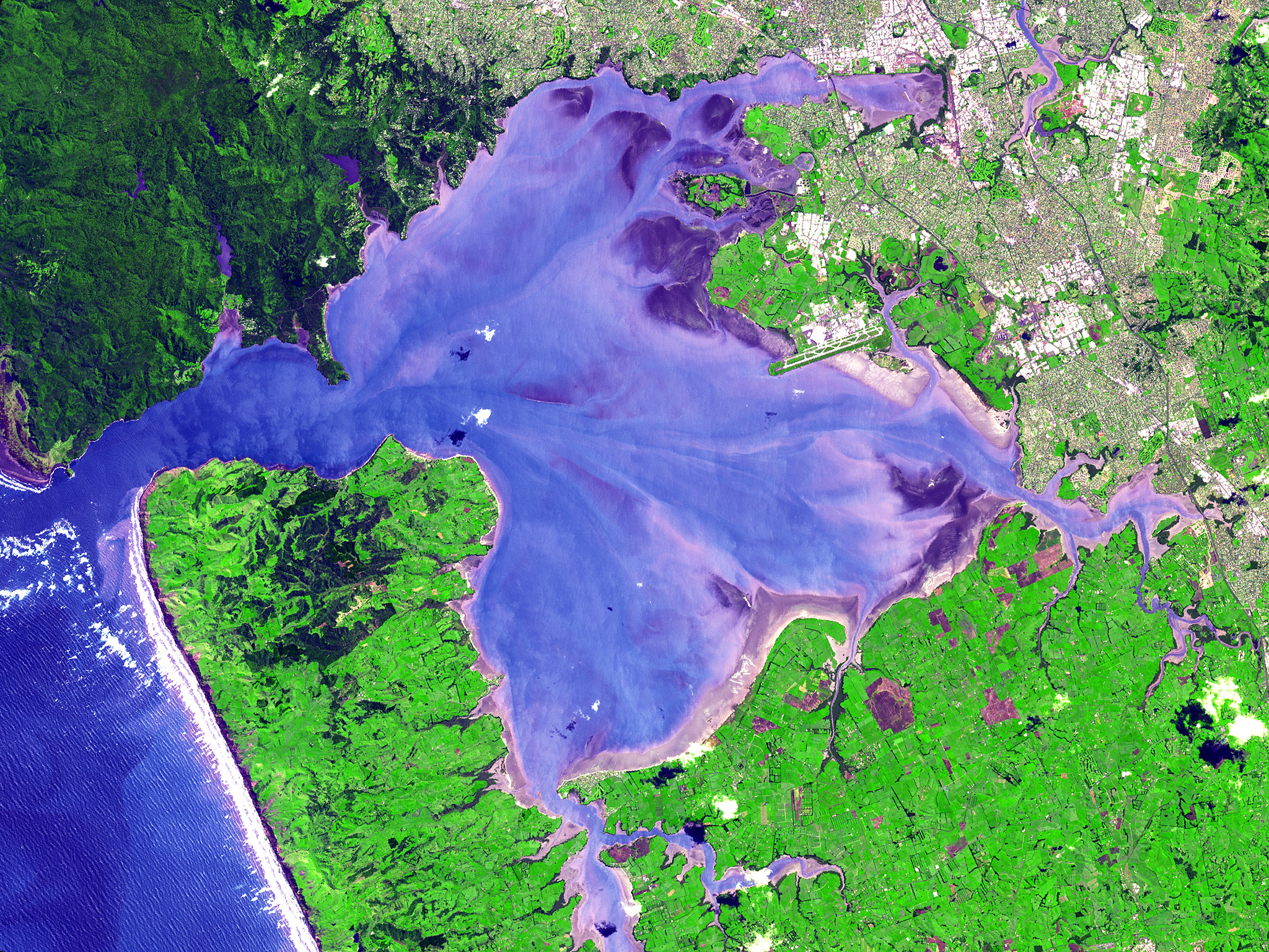 Manukau Harbour, North Island, New Zealand (satellite image from NASA)